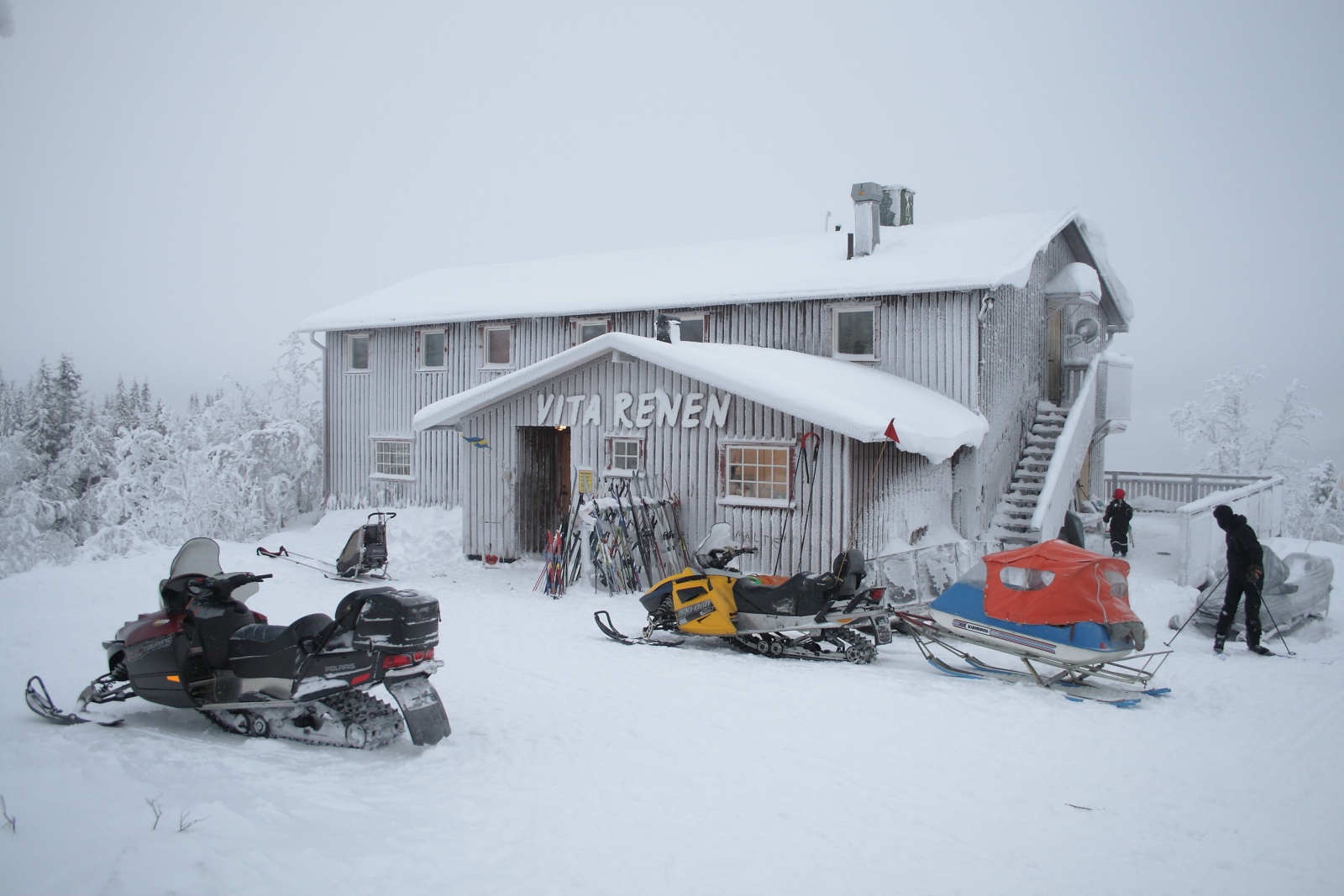 "Vita Renen" at approximately 740 meters above sea level, lies on the Edsåsdalen side of Renfjället, Jämtland, Sweden.